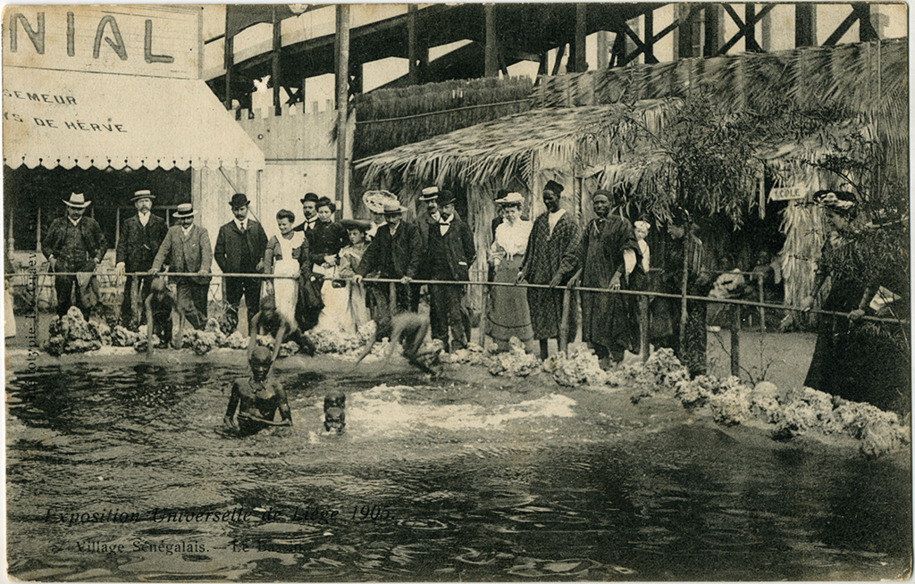 Senegalese village, part of the French pavilion at the Exposition Universelle of 1905 in Liège. Visitors were invited to throw coins which the Senegalese had to dive for (a practice started at the Paris exhibition of 1896).